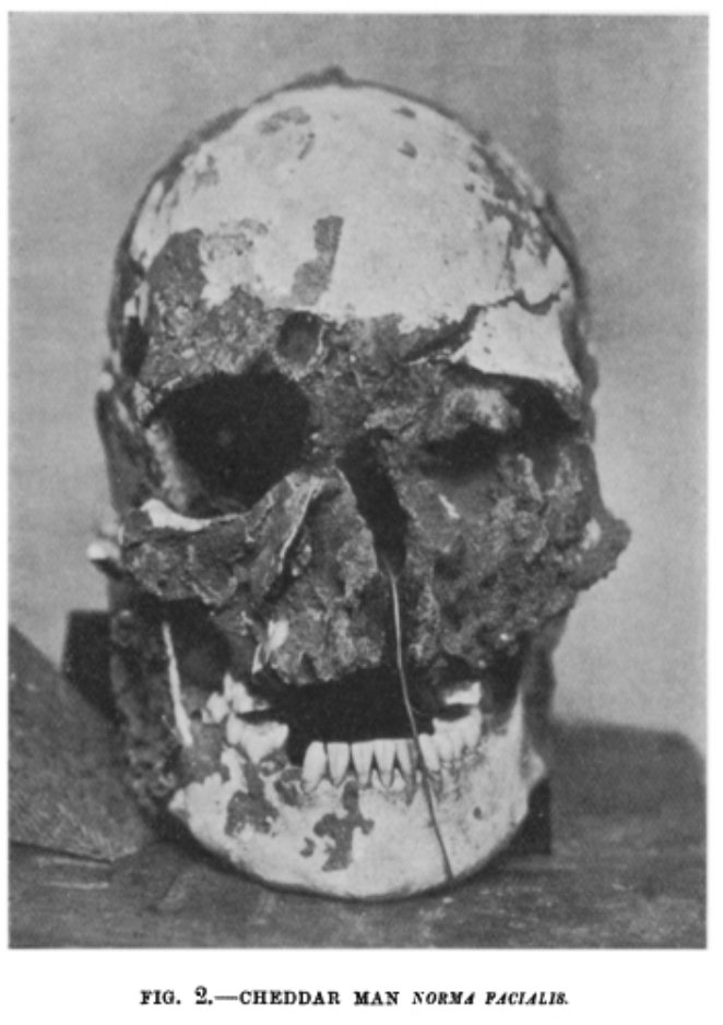 Cheddar Man skull. The Cheddar Man: A Skeleton of Late Palaeolithic Date. C. G. Seligman and F. G. Parsons The Journal of the Royal Anthropological Institute of Great Britain and Ireland Vol. 44, (Jul. - Dec., 1914), pp. 241-263 Figure 2